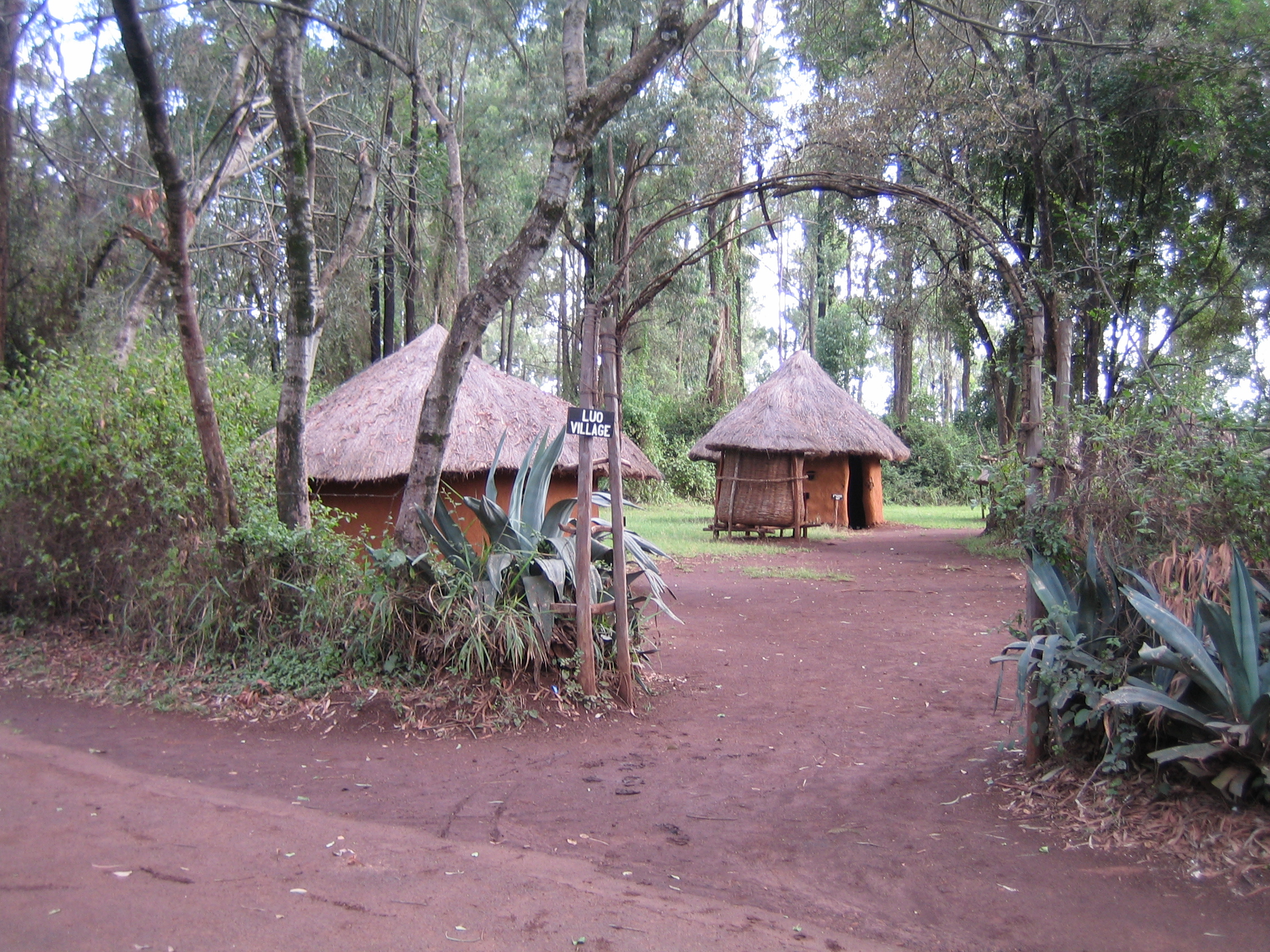 Traditional Luo village, as depicted at Bomas of Kenya